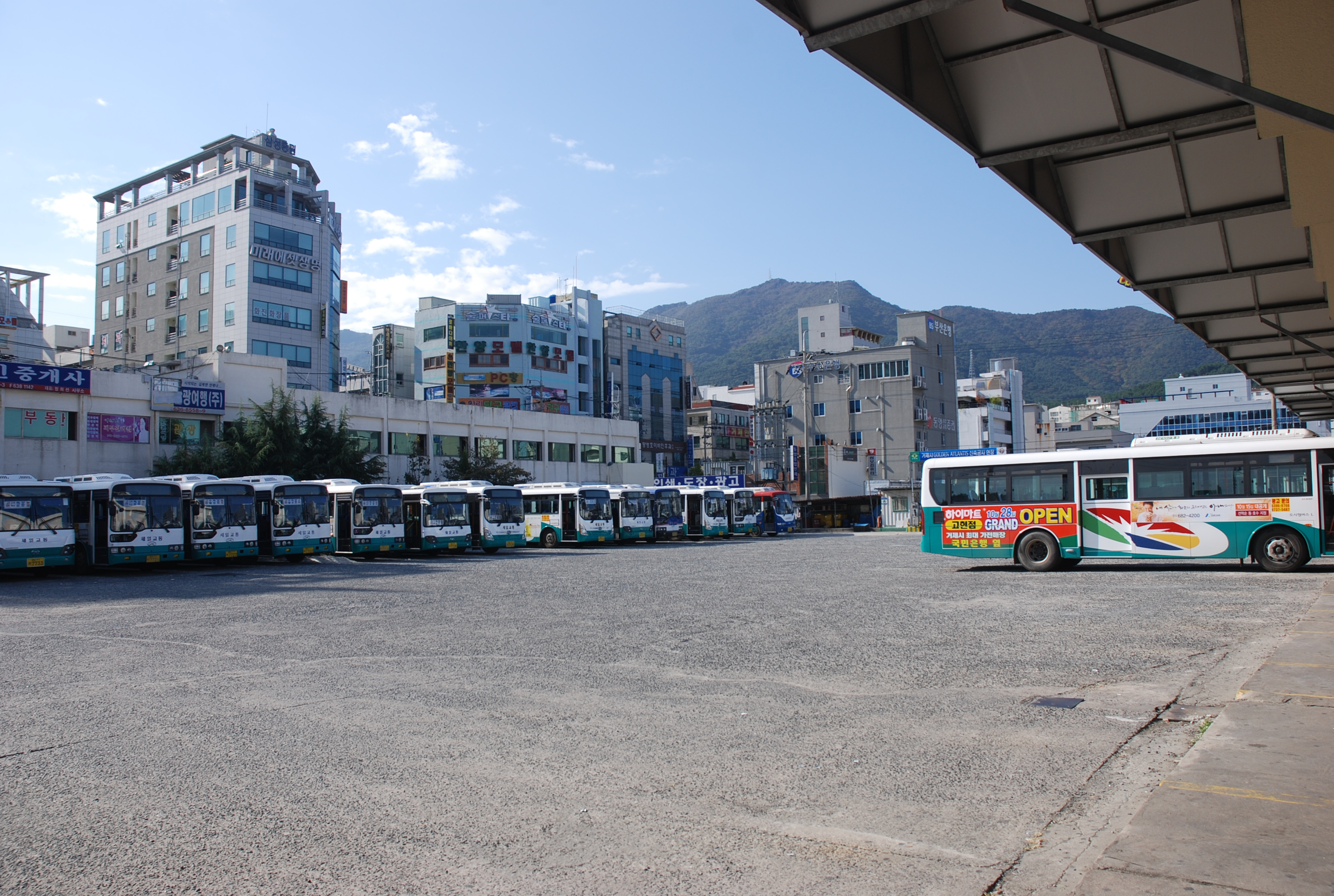 Goeje intracity bus Terminal, beside Gohyun Express Bus Terminal